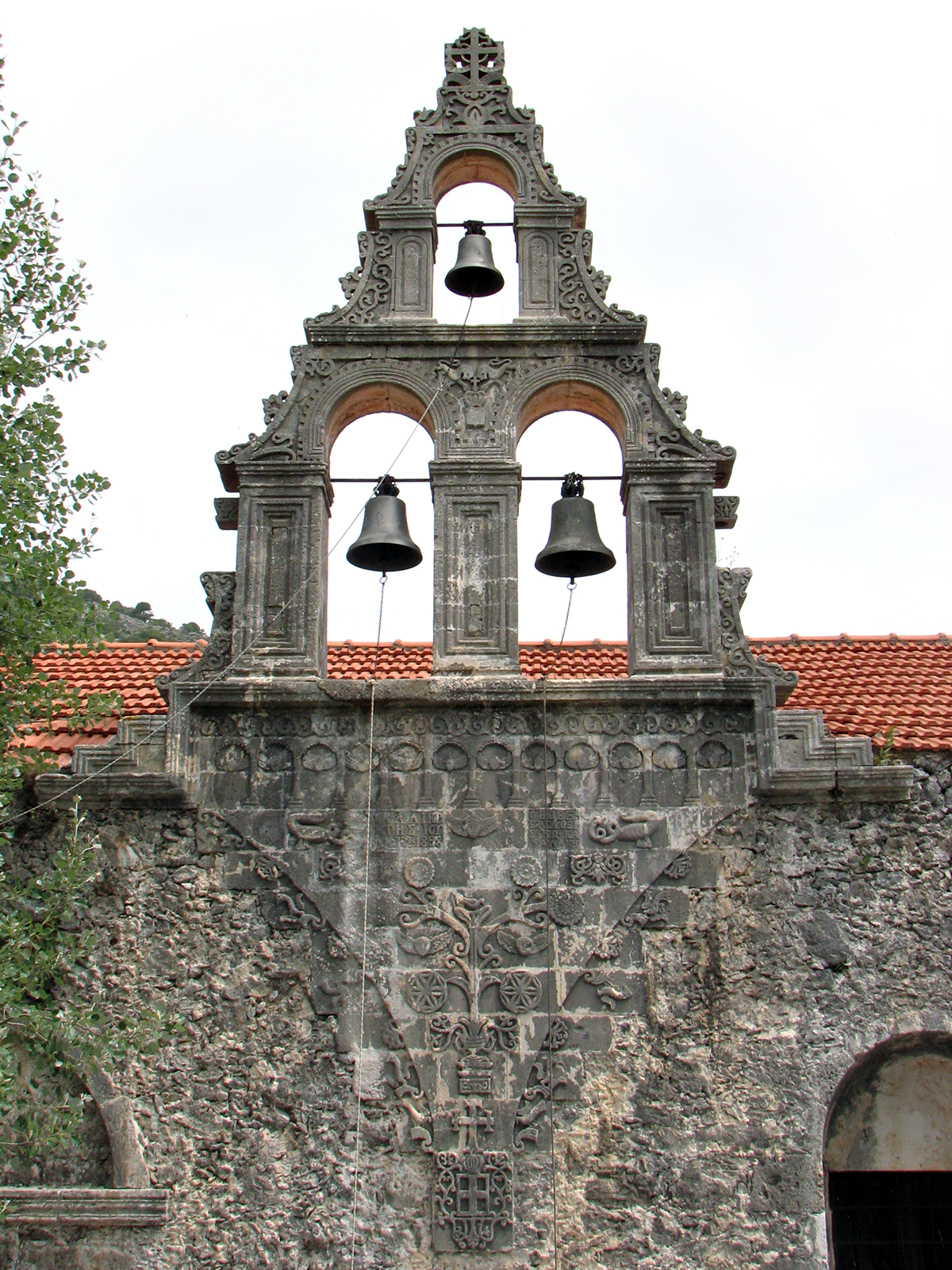 The bell tower of Panagia (Virgin Mary) church at Kallikratis, built ca. 1880.